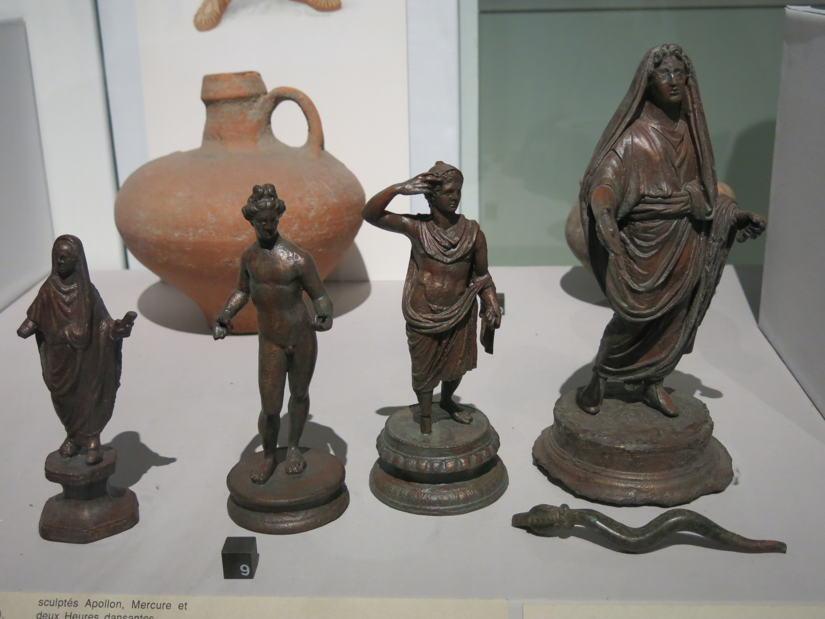 Set of statuettes in bronze discovered during excavations in Brumath, place de l'Aigle. Preserved in the archeological museum of Strasbourg (Bas-Rhin, France). They are replicas by moulding.